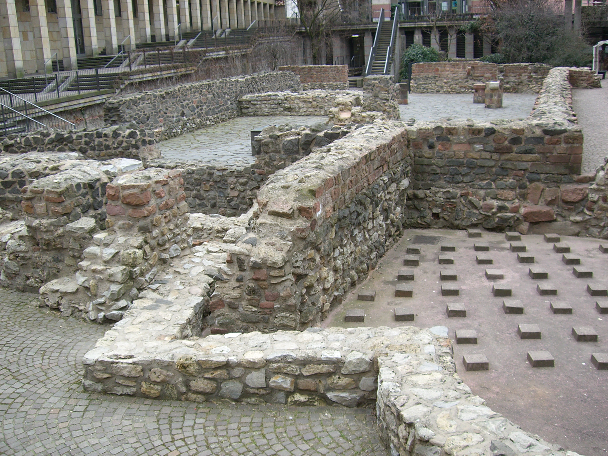 Frankfurt, Germany